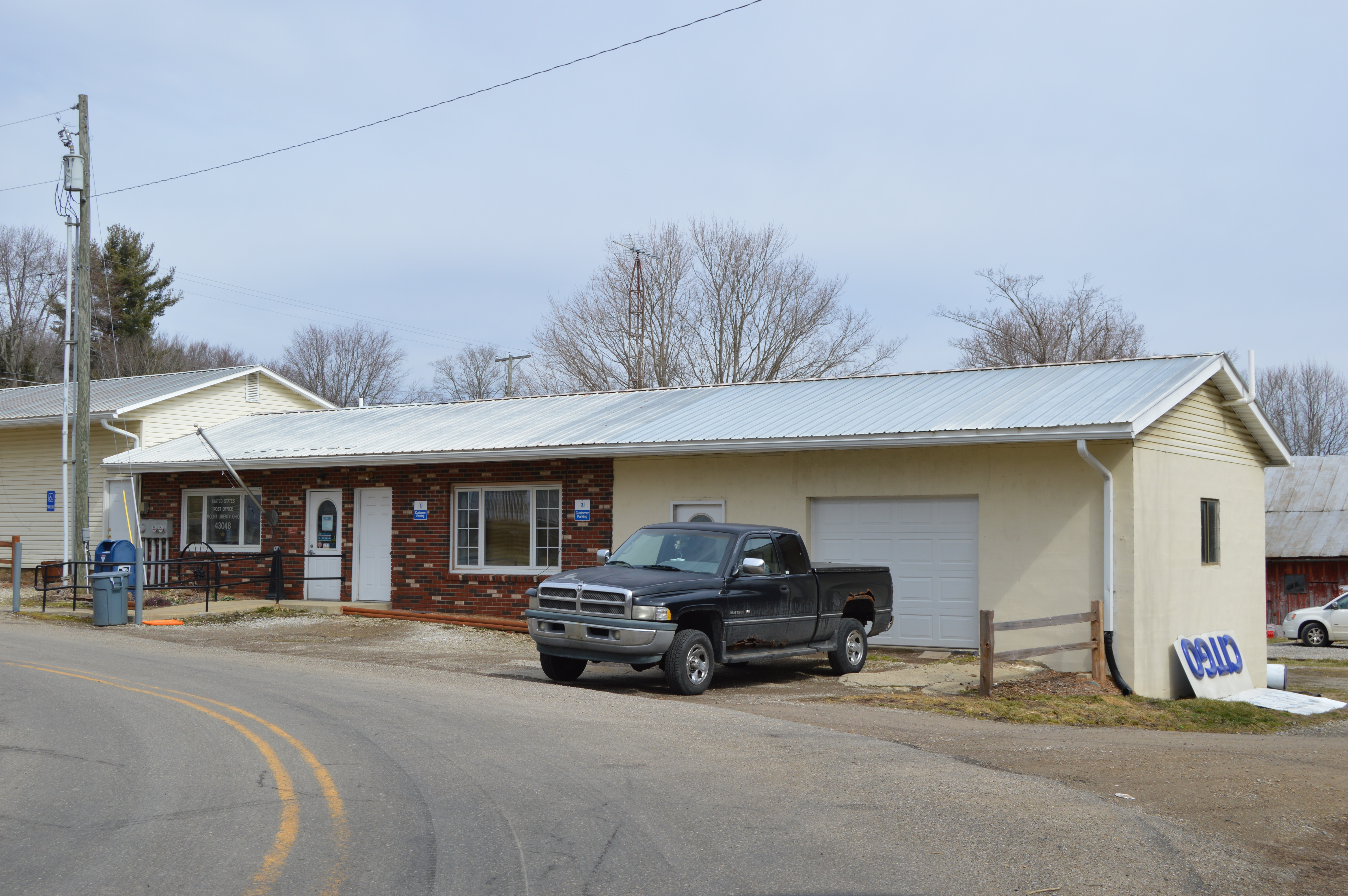 Front and southern end of the Mount Liberty post office, located on Carter Street in Mount Liberty, Ohio, United States.